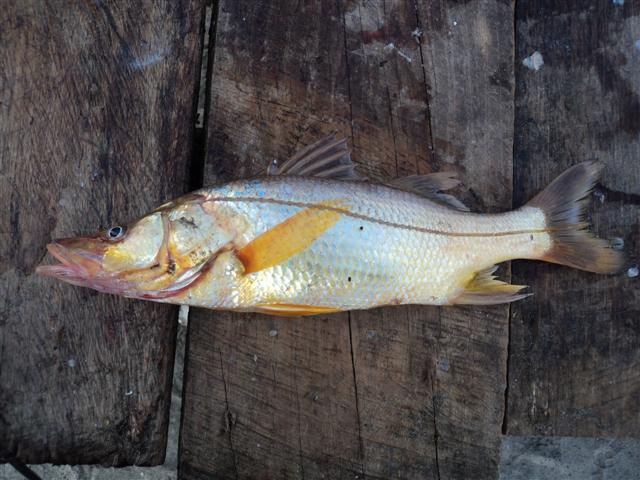 Centropomus parallelus at Barra del Rio Kruta, Honduras, March 15, 2012